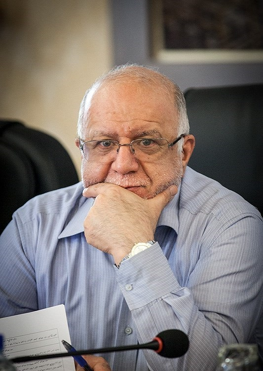 Bijan Namdar Zangeh, Iran's Petroleum minister